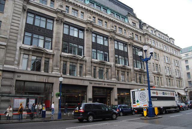 The University of Westminster, Regents St